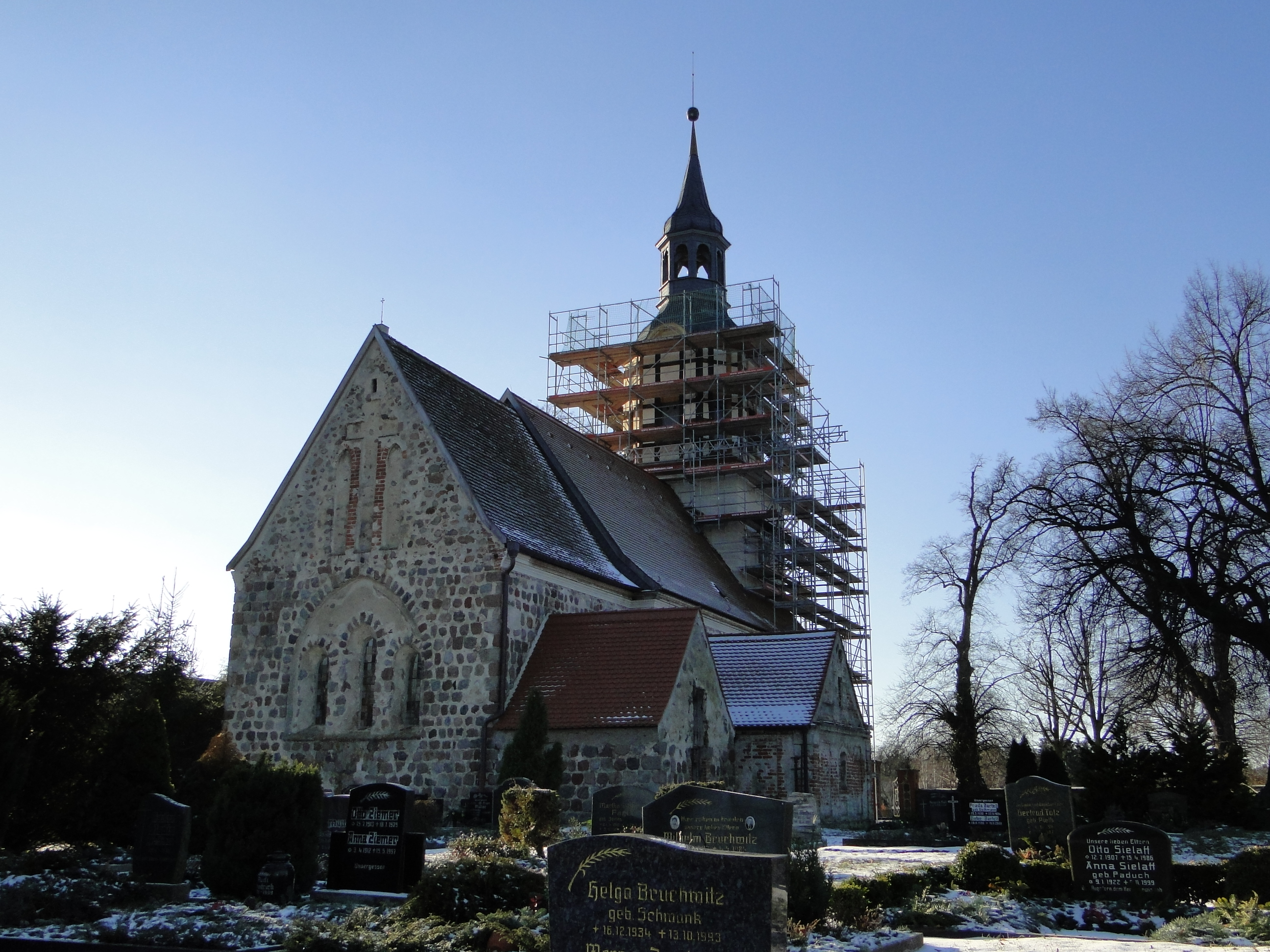 Church with scaffolding in Kotelow, district Mecklenburg-Strelitz, Mecklenburg-Vorpommern, Germany